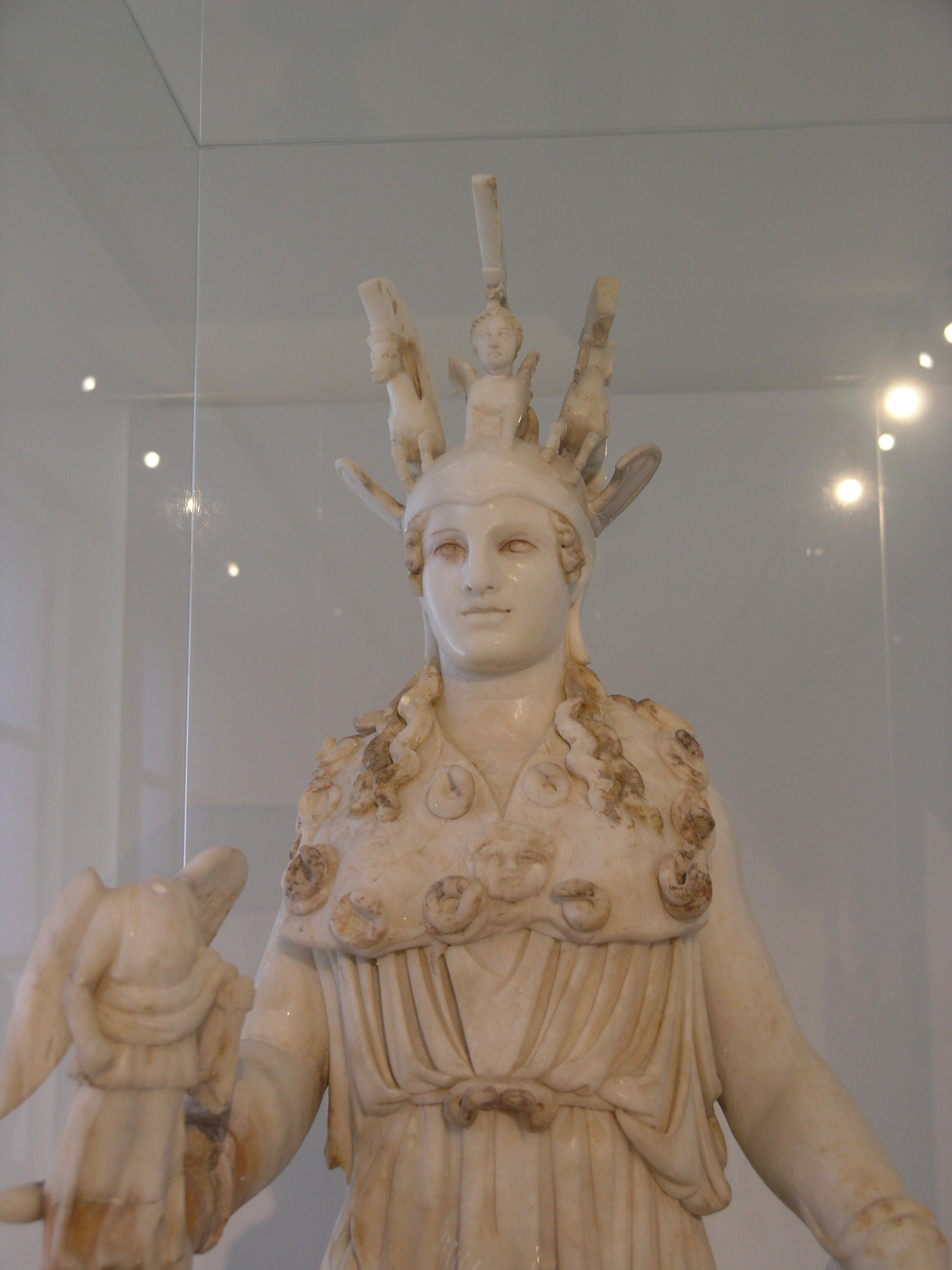 Athena Varvakeion, small Roman replica of the Athena Parthenos by Phidias. Found in Athens near the Varvakeion school, hence the name. First half of the 3rd c. AD.